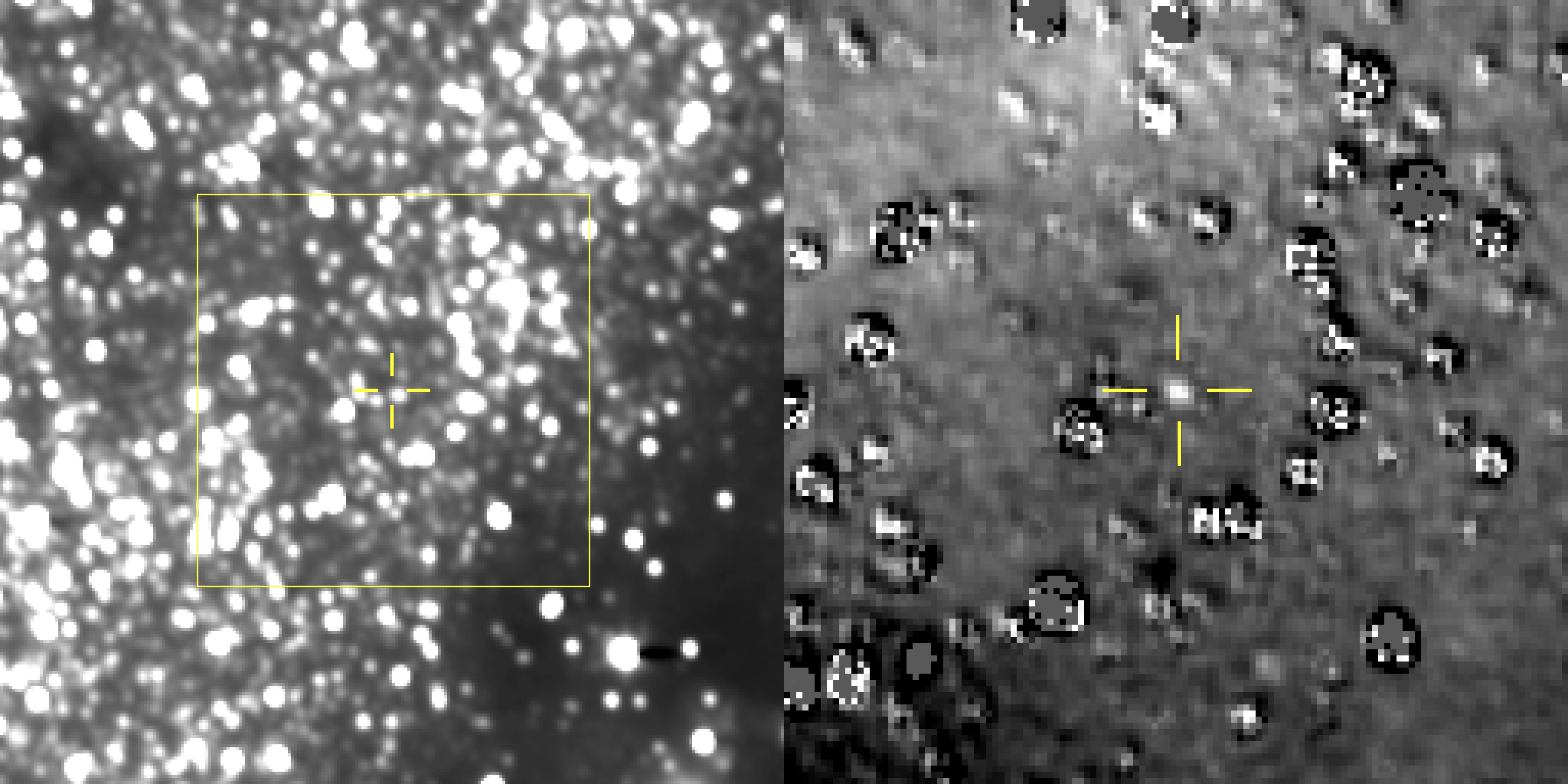 The figure on the left is a composite image produced by adding 48 different exposures from the News Horizons Long Range Reconnaissance Imager (LORRI), each with an exposure time of 29.967 seconds, taken on Aug. 16, 2018. The predicted position of the Kuiper Belt object nicknamed Ultima Thule is at the center of the yellow box, and is indicated by the red crosshairs, just above and left of a nearby star that is approximately 17 times brighter than Ultima. At right is a magnified view of the region in the yellow box, after subtraction of a background star field "template" taken by LORRI in September 2017 before it could detect the object itself. Ultima is clearly detected in this star-subtracted image and is very close to where scientists predicted, indicating to the team that New Horizons is being targeted in the right direction. The many artifacts in the star-subtracted image are caused either by small mis-registrations between the new LORRI images and the template, or by intrinsic brightness variations of the stars. At the time of these observations, Ultima Thule was 107 million miles (172 million kilometers) from the New Horizons spacecraft and 4 billion miles (6.5 billion kilometers) from the Sun. (Image credits: NASA/JHUAPL/SwRI)